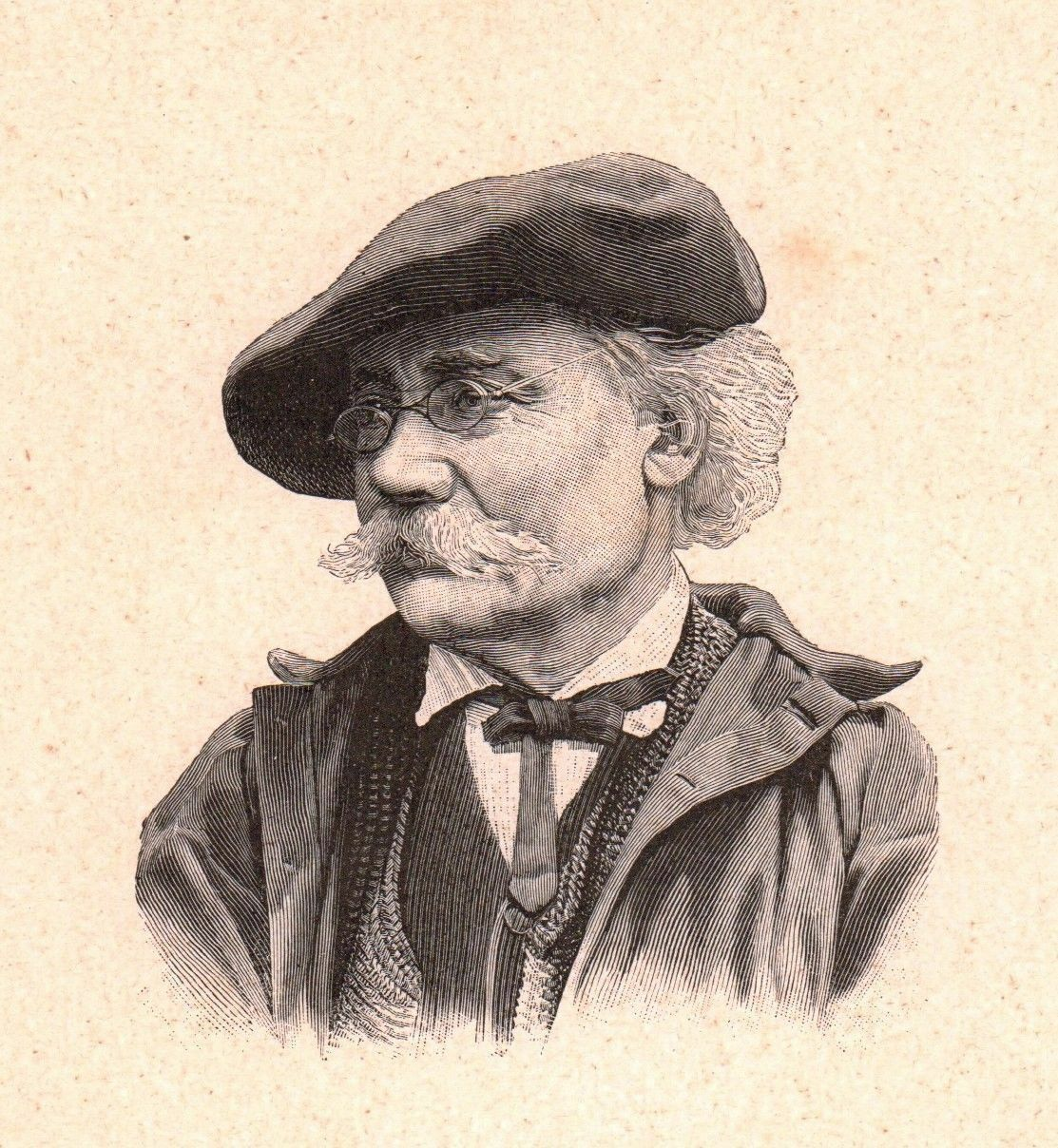 Jules Baric (1830-1905), French draughtsman.